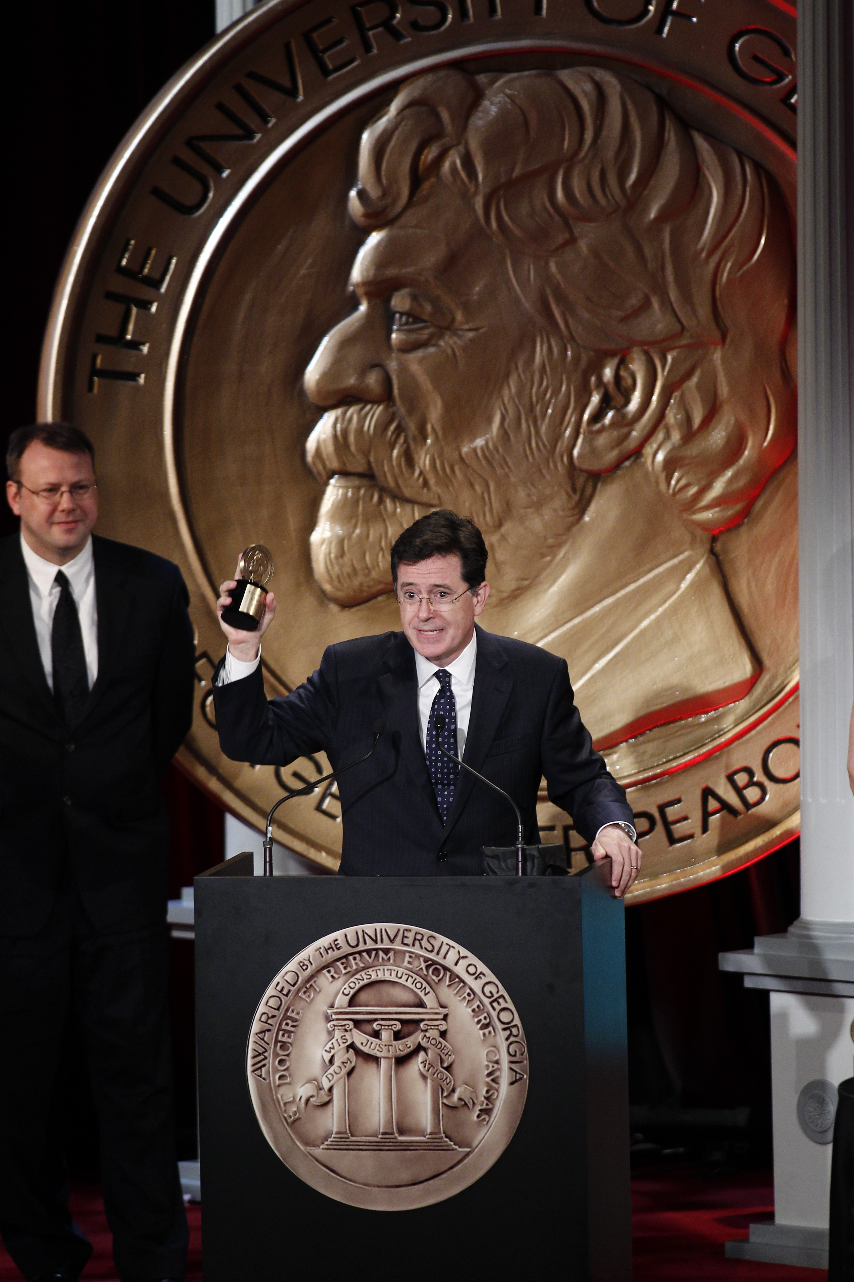 PHOTO CREDIT: ANDERS KRUSBERG / PEABODY AWARDS Stephen Colbert accepts the Peabody. He is joined on stage by crew members from the show. 71st Annual Peabody Awards Luncheon Waldorf=Astoria Hotel May 21, 2012